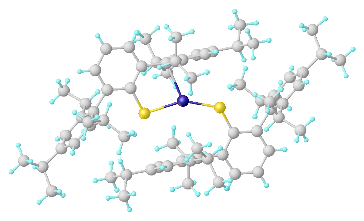 structure of Fe[SC6H3-2,6-(C6H3-2,6-(iPr)2]2